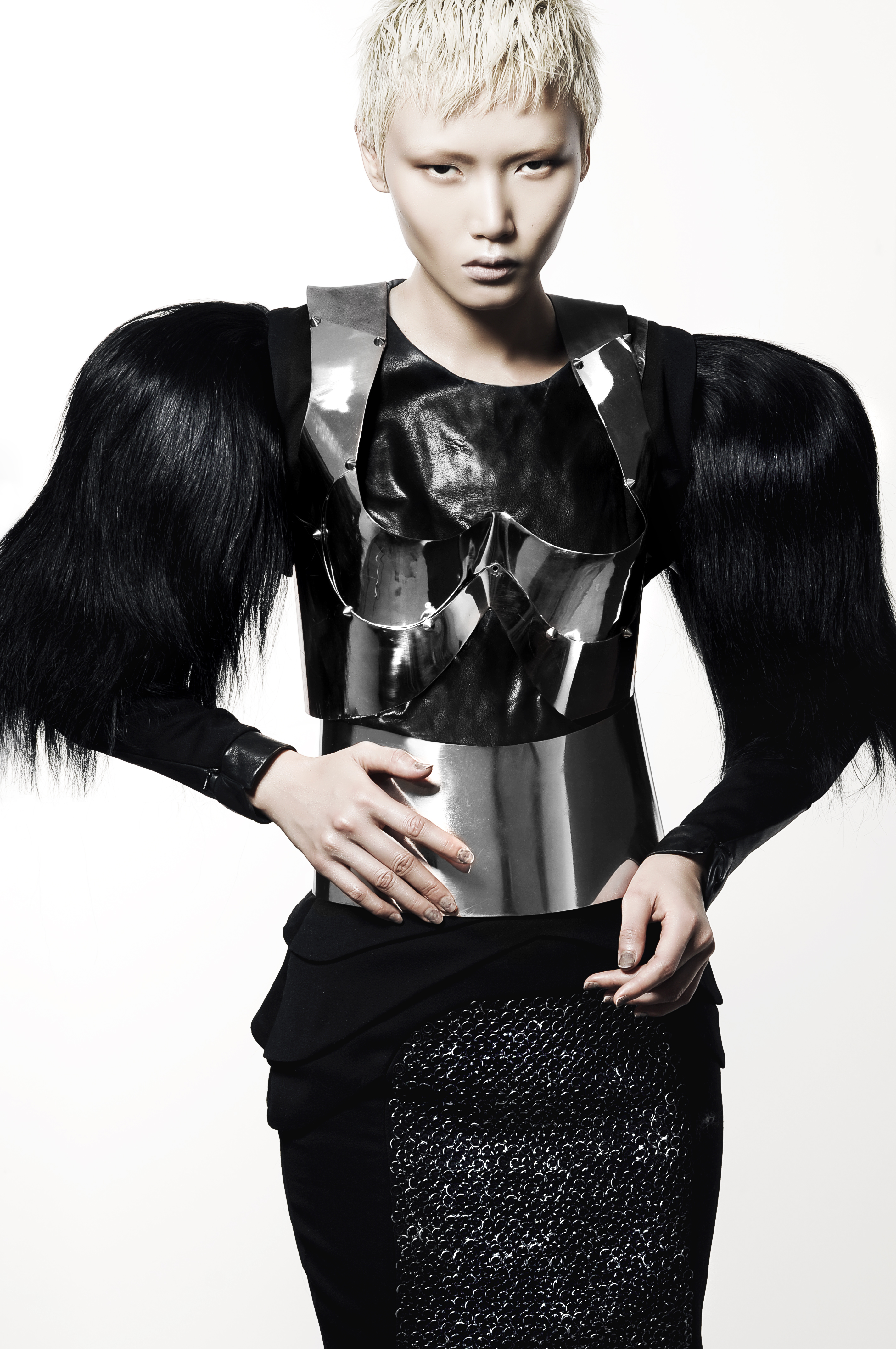 Fashion Stylist Beagy Zielinski editorial work 2011